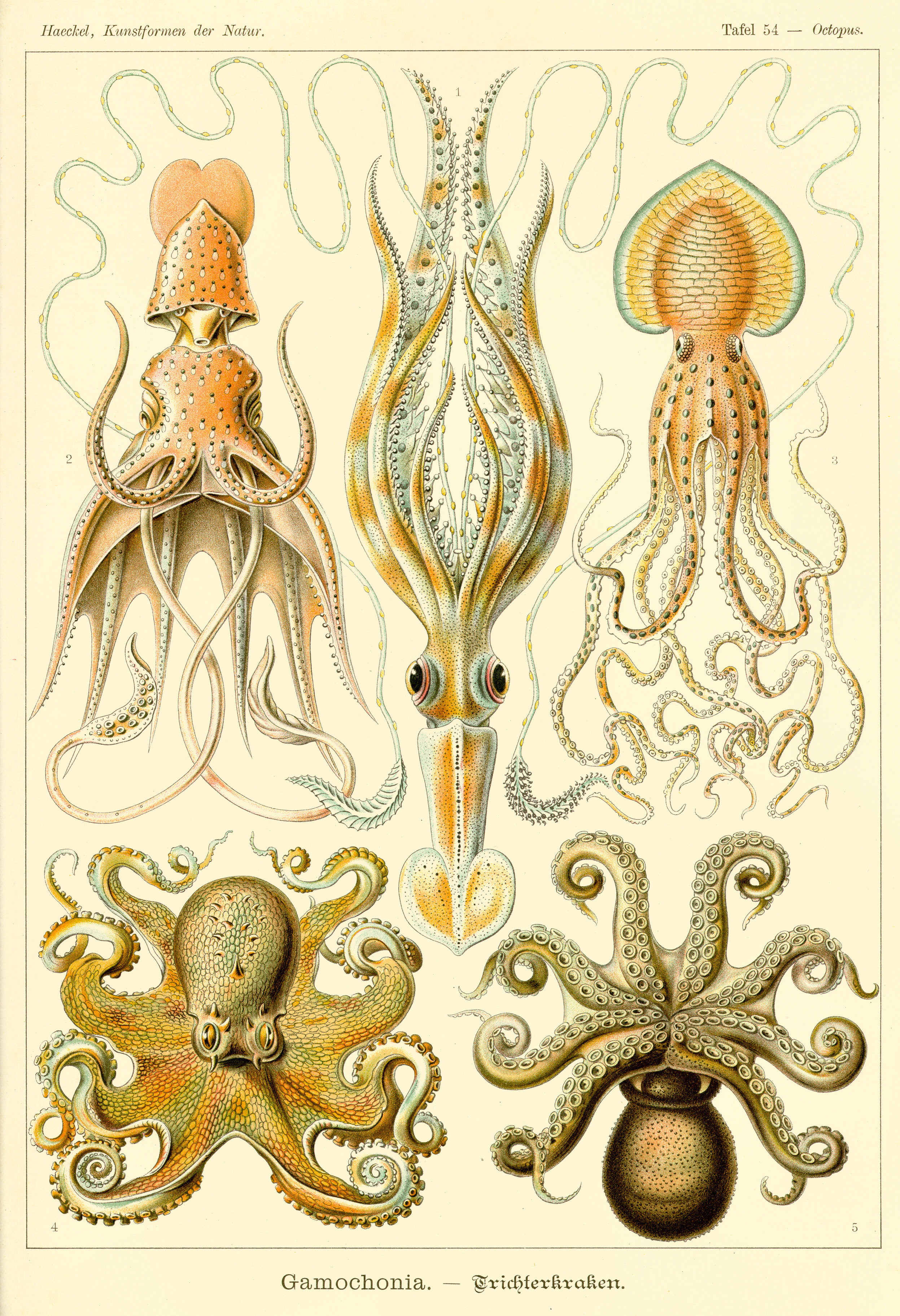 Chiroteuthis Veranyi (Férussac) = Chiroteuthis veranyi (Férussac, 1835), from below Histioteuthis Rüppellii (Verany) = Histioteuthis bonnellii (Ferussac, 1835), from above Pinnoctopus cordiformis (Gaimard) = Pinnoctopus cordiformis Quoy & Gaimard, 1832, from above Octopus vulgaris (Lamarck) = Octopus vulgaris Cuvier, 1797, from above Octopus granulatus (Lamarck) = Octopus vulgaris Cuvier, 1797, from below